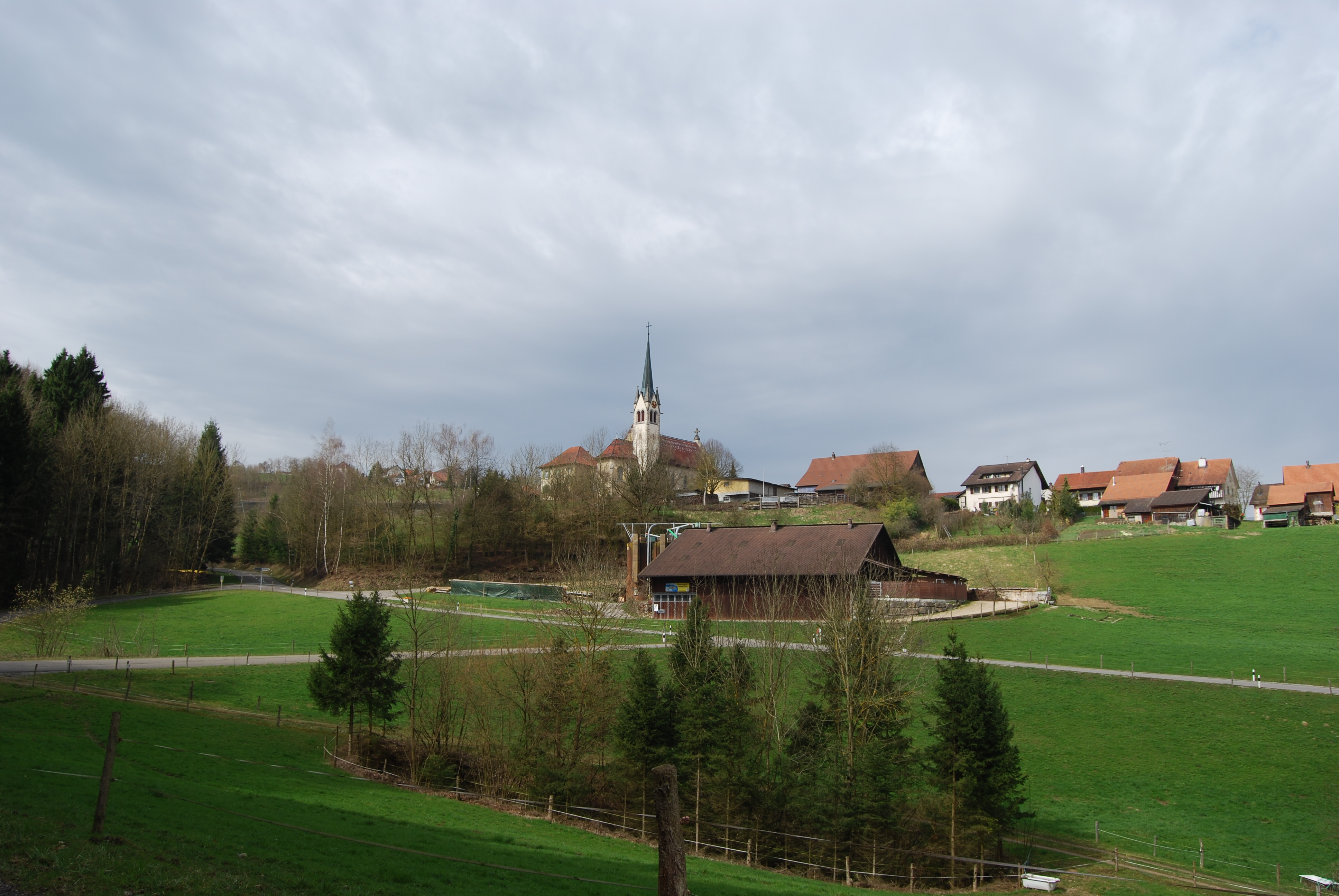 Church of Baldingen, canton of Aargau, SwitzerlandEsperanto: Preĝejo de Baldingen, Kantono Argovio, Svislando